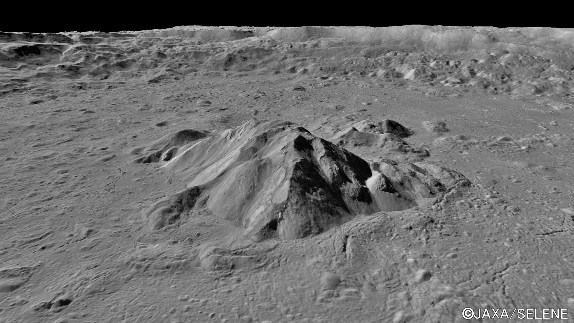 Tycho crater central peak, on the moon. Reconstructed from Kaguya images.